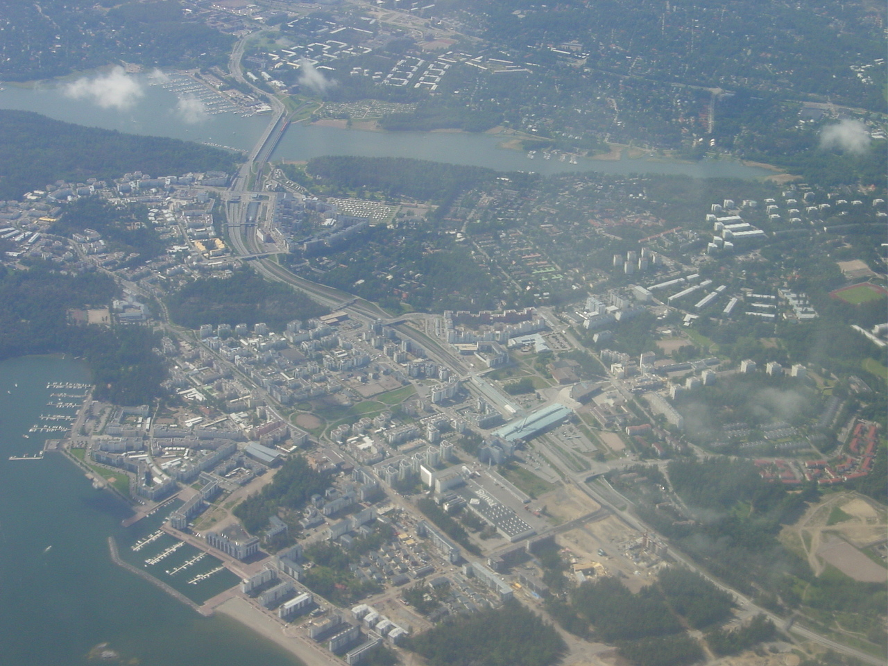 Vuosaari, Helsinki, Finland. The picture has been taken from an aeroplane.